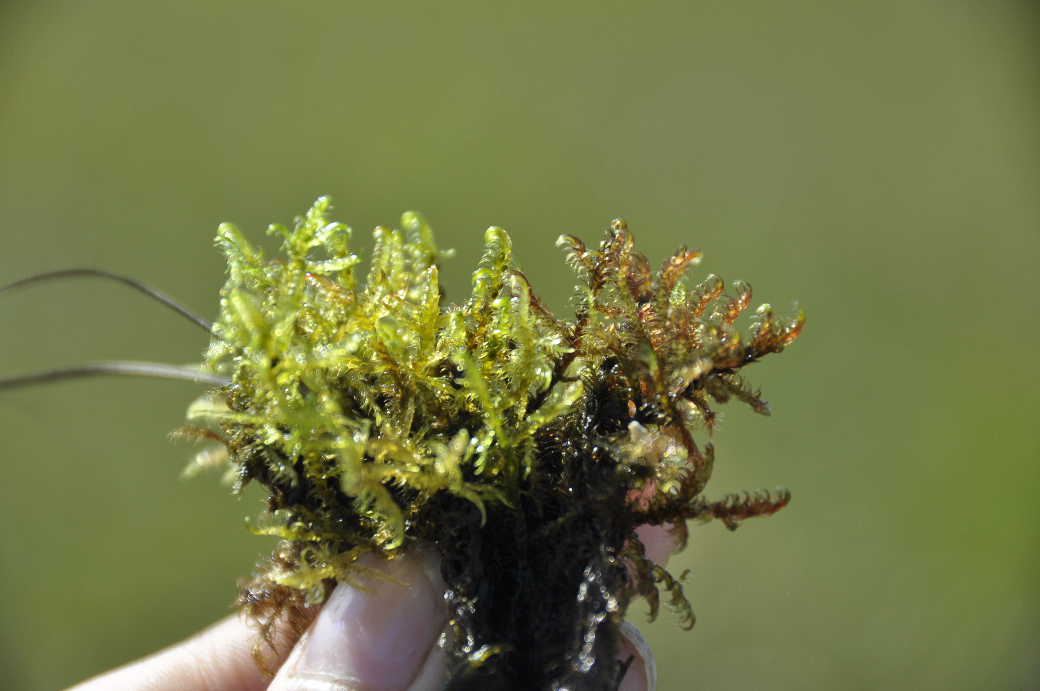 There are two species of bryophytes belonging to one genus (Warnostorfia). Sometimes plant identification is easy.